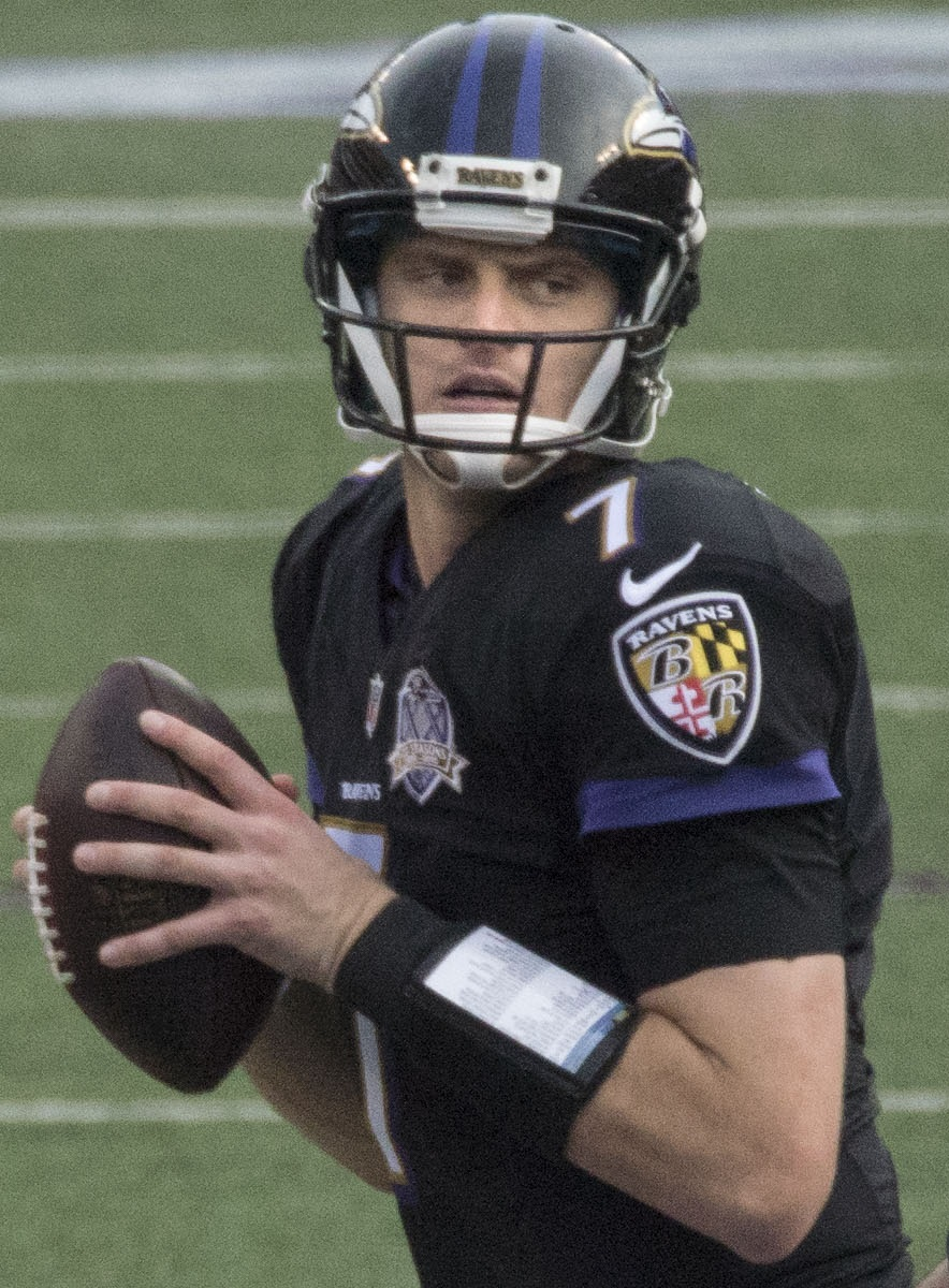 Steelers at Ravens 12/27/15